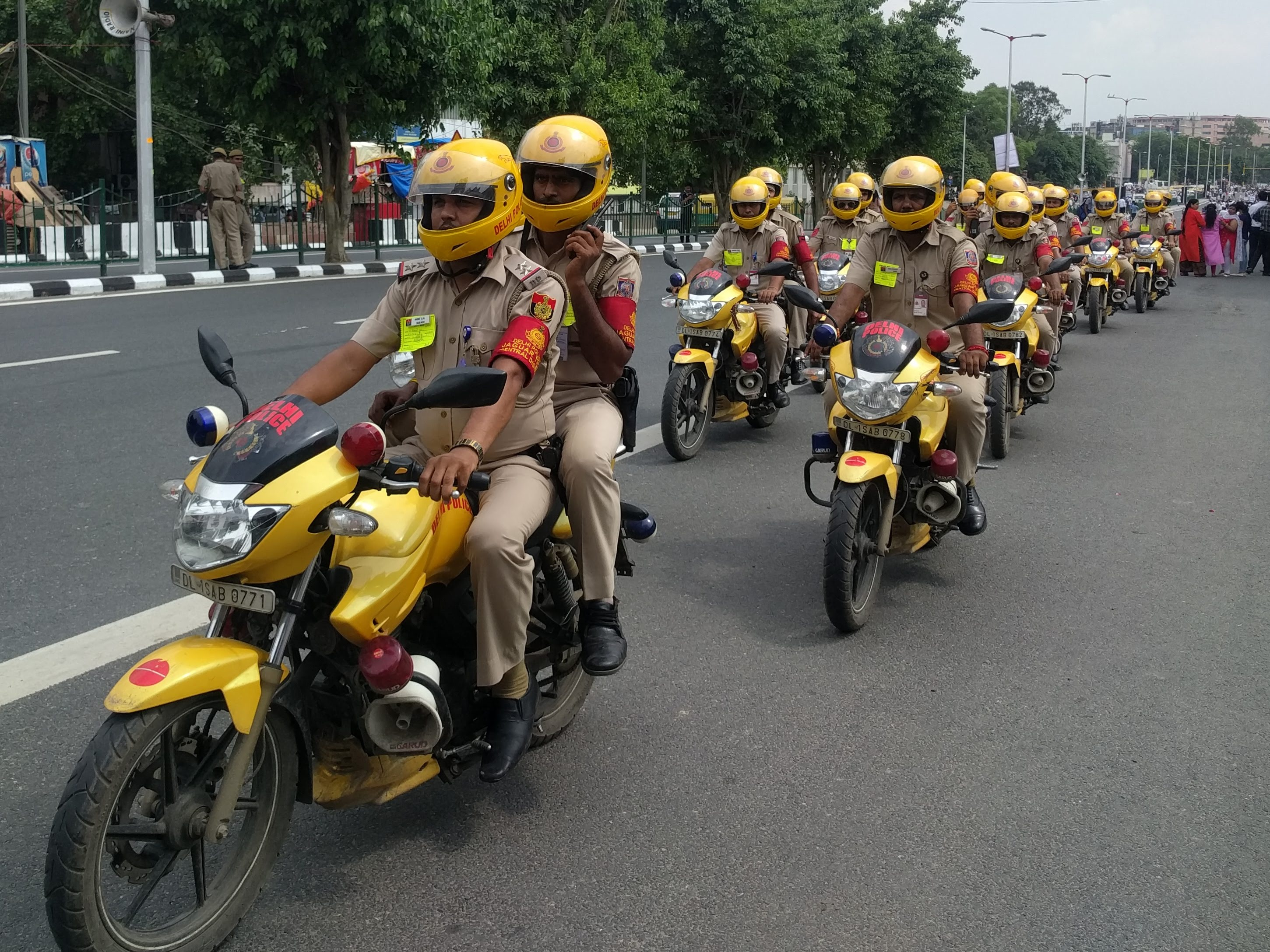 Delhi Police on patrol during the funeral procession of Atal Bihari Vajpayee on 17 August 2018. In picture TVS Apache motorbikes are being used.